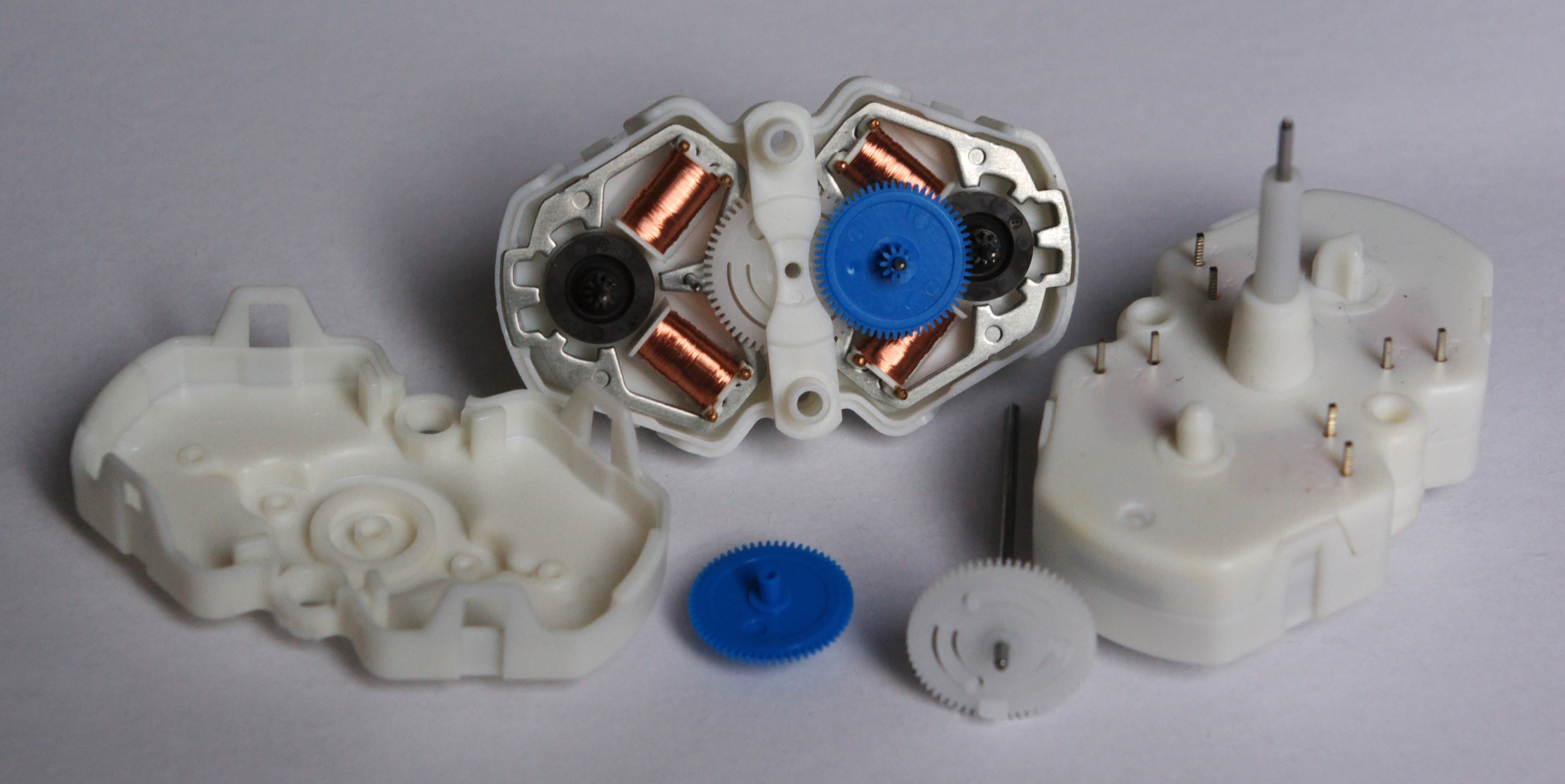 Partly dismantled double-stepping motor manufactured by SONCEBOZ pointer instruments. Image width approx. 12cm. The stepper motor is designed for use in an instrument cluster and can independently rotate two hands or pointers on a shaft, such as hour and minute hands on a clock. The left motor moves the hollow outer shaft of plastic, and the right motor moves the inner steel shaft.